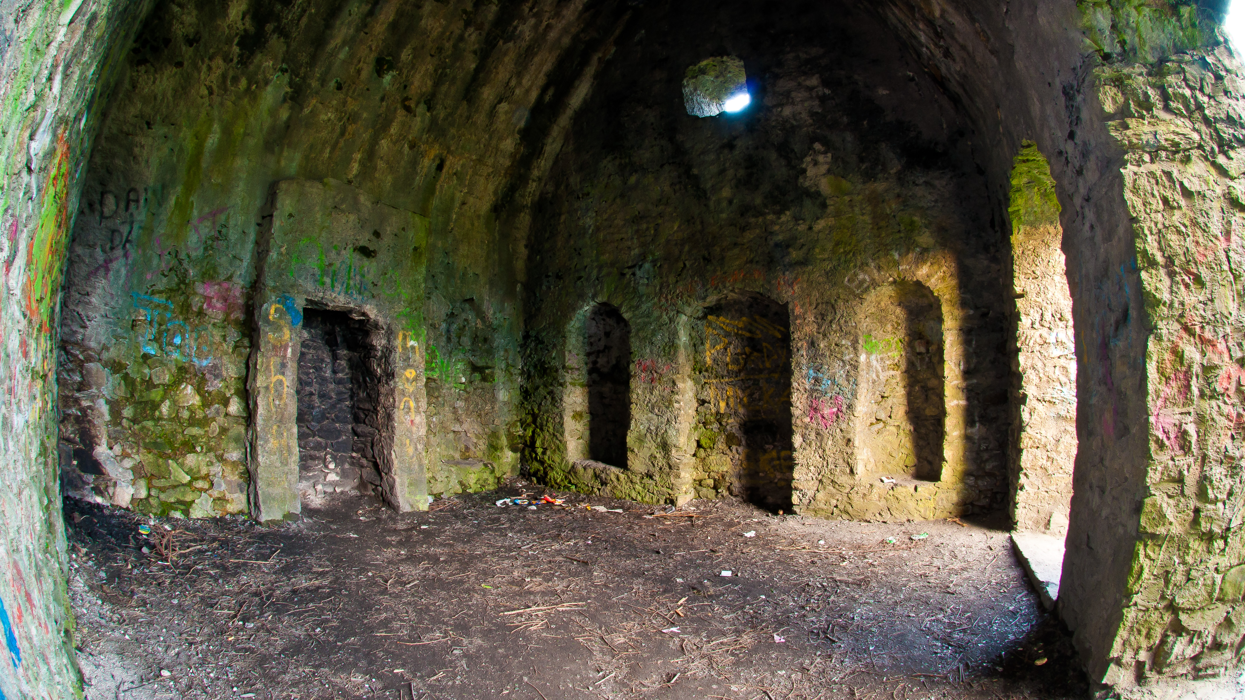 Fisheye image of one of the reception rooms on the upper floor of the Hell Fire Club, Montpellier Hill, Dublin, Ireland